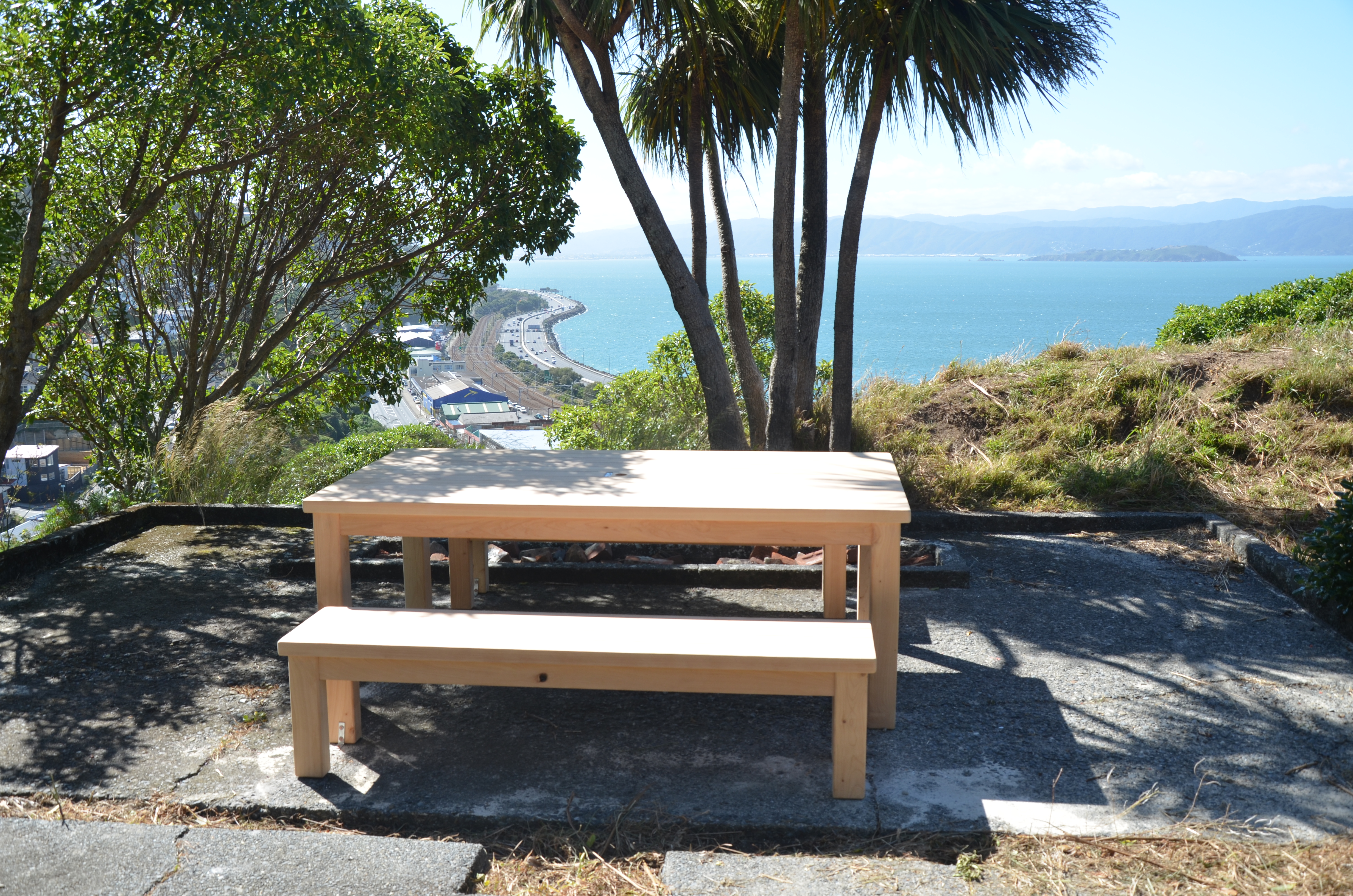 Fort Buckley Picnic Table March 2014 by HPPA